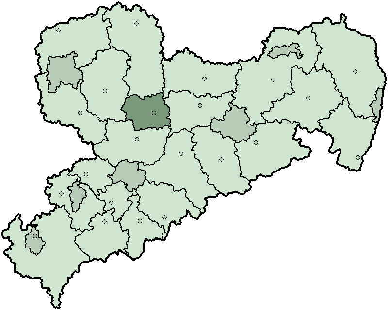 Map of the state Saxony in Germany before 2008, district Döbeln highlighted.